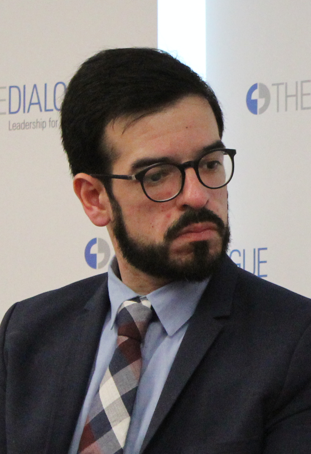 Laura Chinchilla, Former President of Costa Rica & Co-chair of the Inter-American Dialogue, speaks on the panel next to Miguel Pizarro, Venezuelan National Assembly member & Commissioner of the Guaidó government for the United Nations Event agenda: Event summary